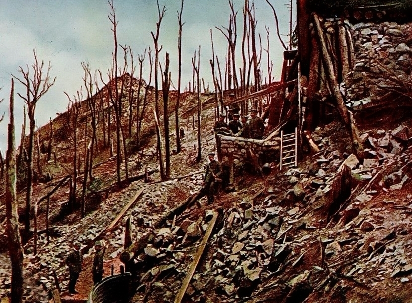 Hartmannsweilerkopf (Alsace, France) 1915